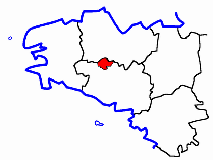 Description: Map for localisazion of cantons of Bretagne region in France Source: made by Hervé Tigier in april 2005 from another large map (published in 1990)